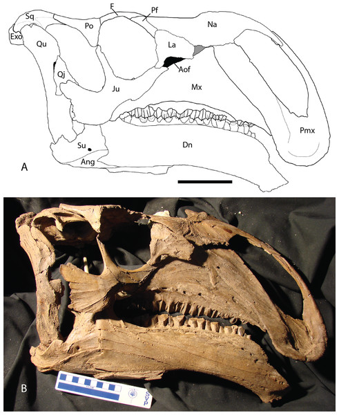 Holotypeskull